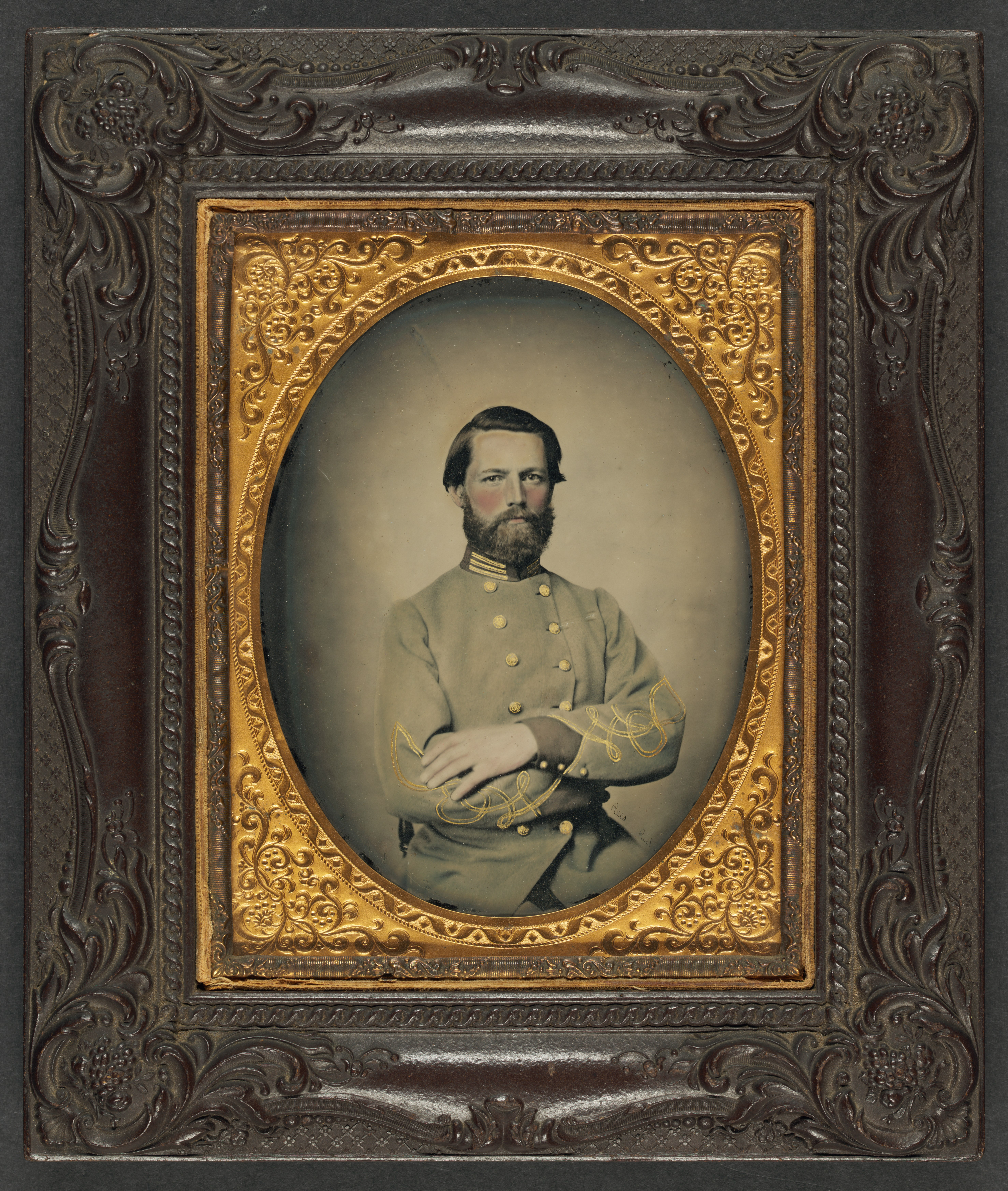 Title: Captain William W. Cosby of H Company, 2nd Virginia Light Artillery Regiment in uniform Abstract/medium: 1 photograph : approximate half-plate ambrotype, hand-colored ; 20.6 x 17.5 cm (frame)